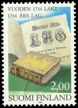 Finnish postage stamp celebrating the 250 years' anniversary of the 1734 Legislation of Sweden. At the time of the anniversary, parts of this legislation was still in use in Finland.